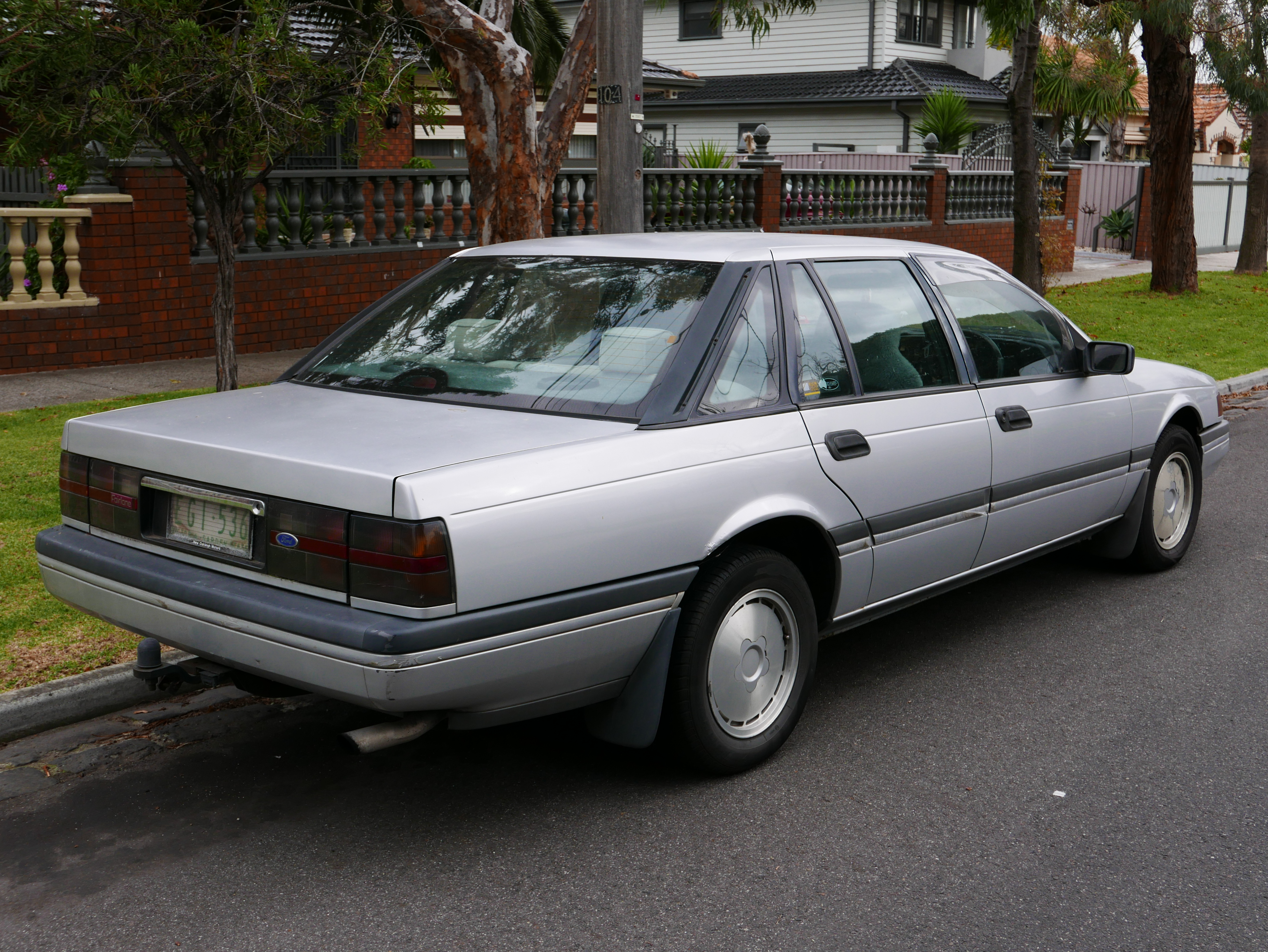 1990 Ford Fairlane (NA II) sedan. Photographed in Northcote, Victoria, Australia. Vehicle registration enquiry results Jurisdiction Victoria Registration EGI536 Chassis code 6FPAAAJG63LY94979 Engine code JG63LY94979 Compliance date 1990-02 Year of manufacture 1990